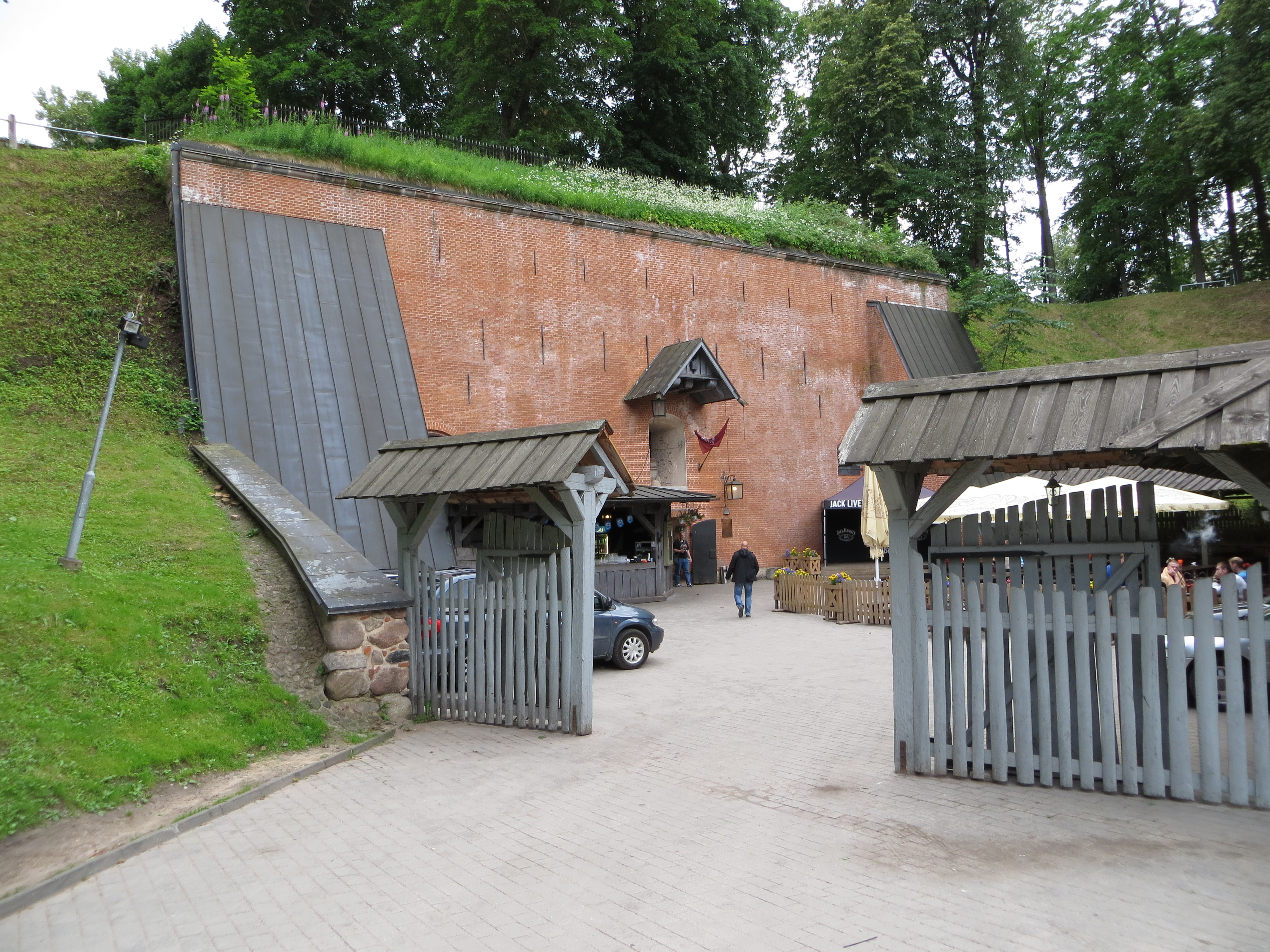 The gate leading up to the entrance of the Püssirohukelder in Tartu, Estonia. Constructed in 1778, Püssirohukelder is Estonian for Gunpowder Cellar and the name harks back to its original usage as an arsenal. Today, Püssirohukelder is an award winning beer restaurant, though the award didn't come because of the food or beer but because it is officially the highest pub in the world, with 10.2 meter from floor to ceiling!